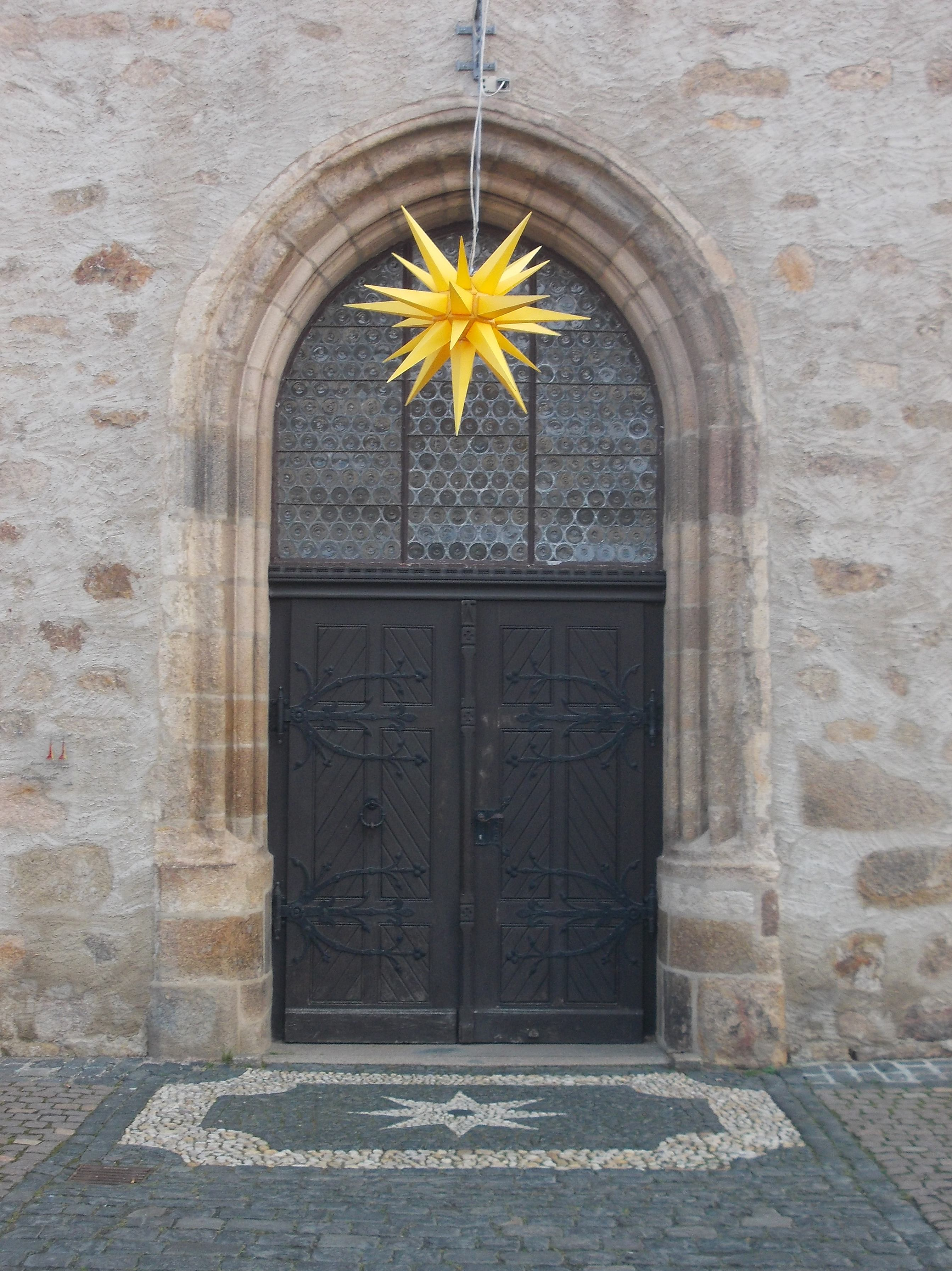 Portal of Our Lafy's Church in Grimma (Leipzig district, Saxony)